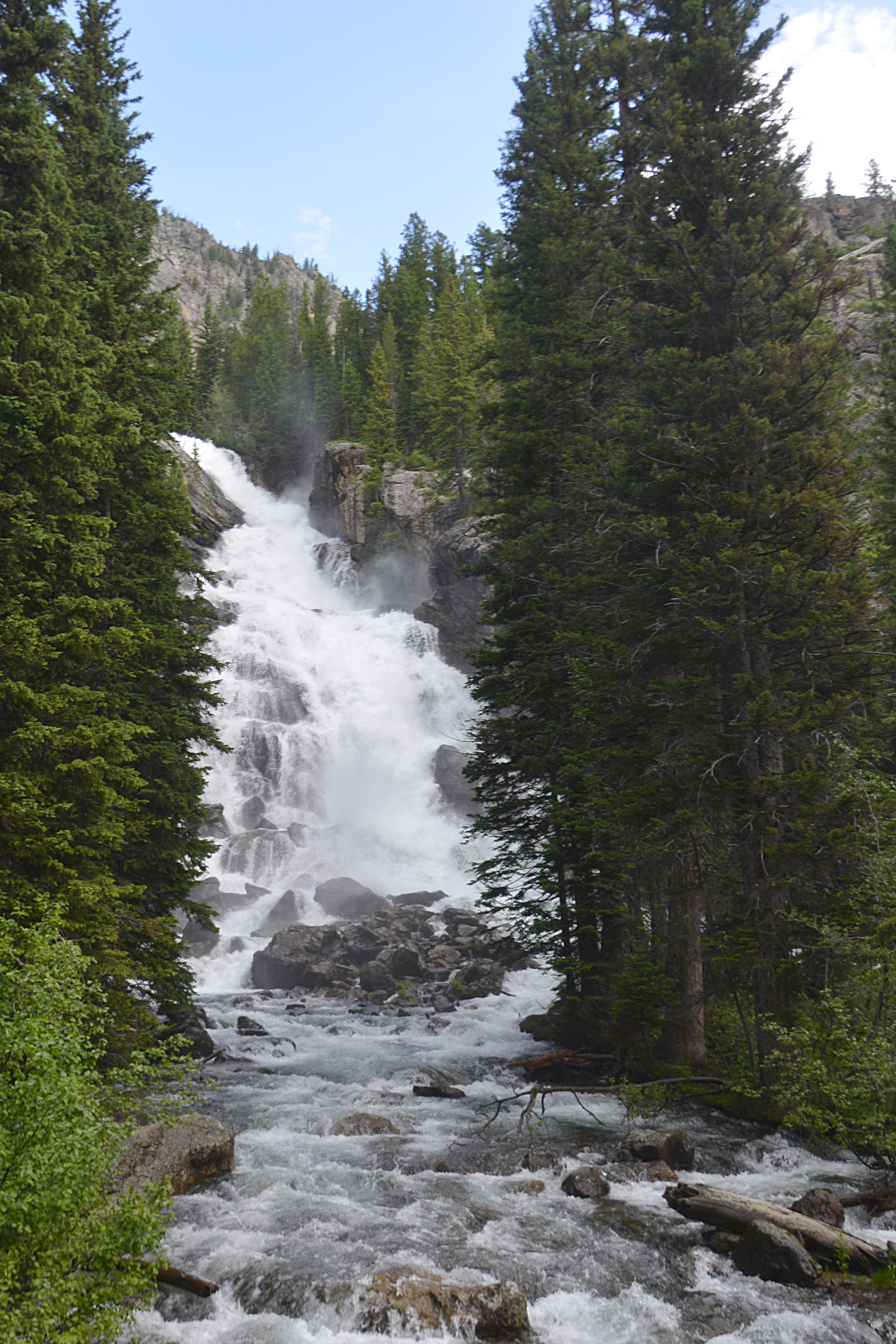 Hidden Falls is 100 foot tall waterfall on Cascade Creek in Grand Teton National Park, WY.